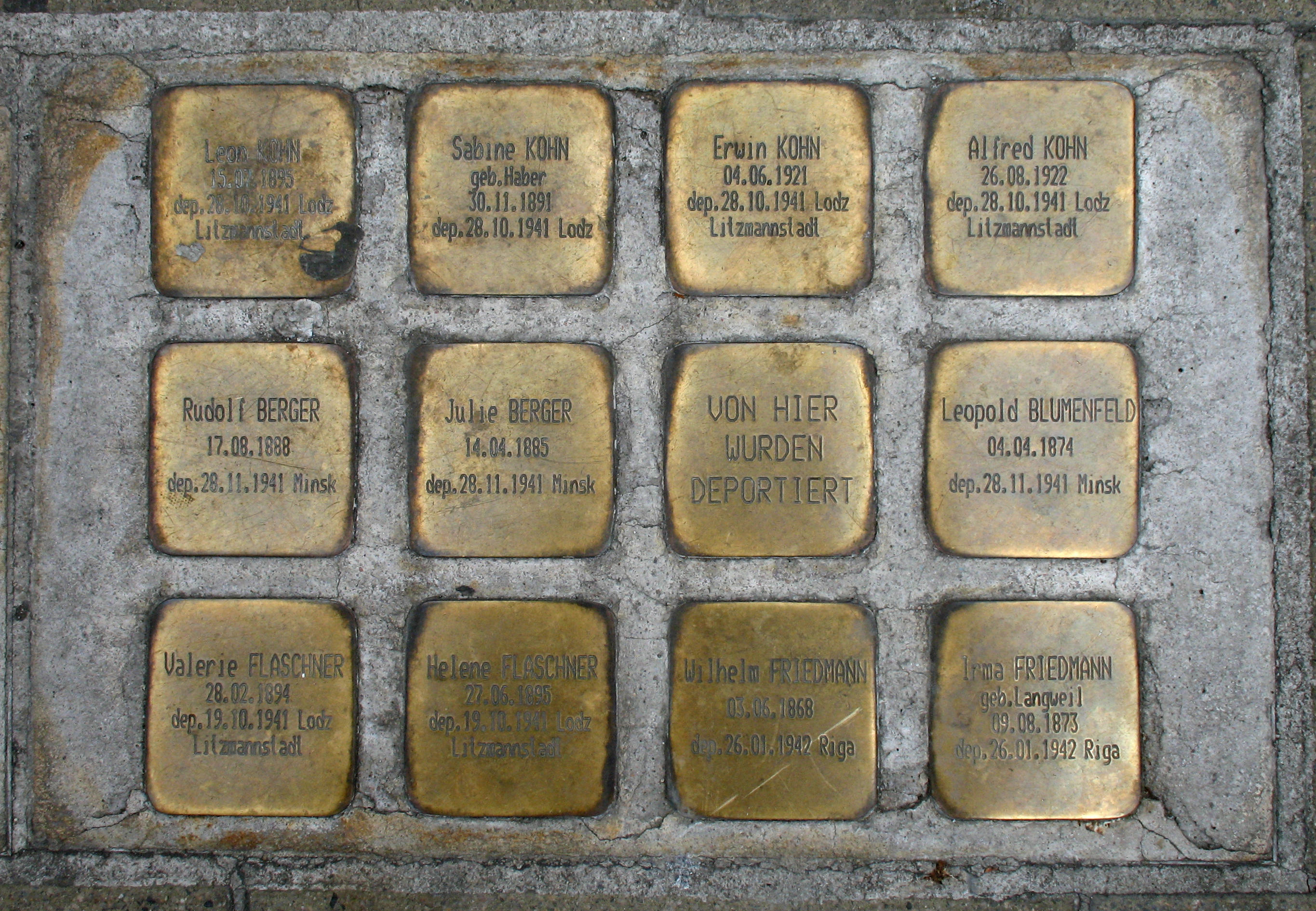 Memorials in Vienna, Austria